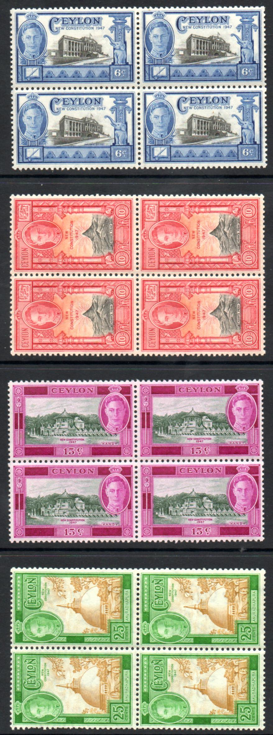 1947 New Constitution set of Ceylon in blocks of four.